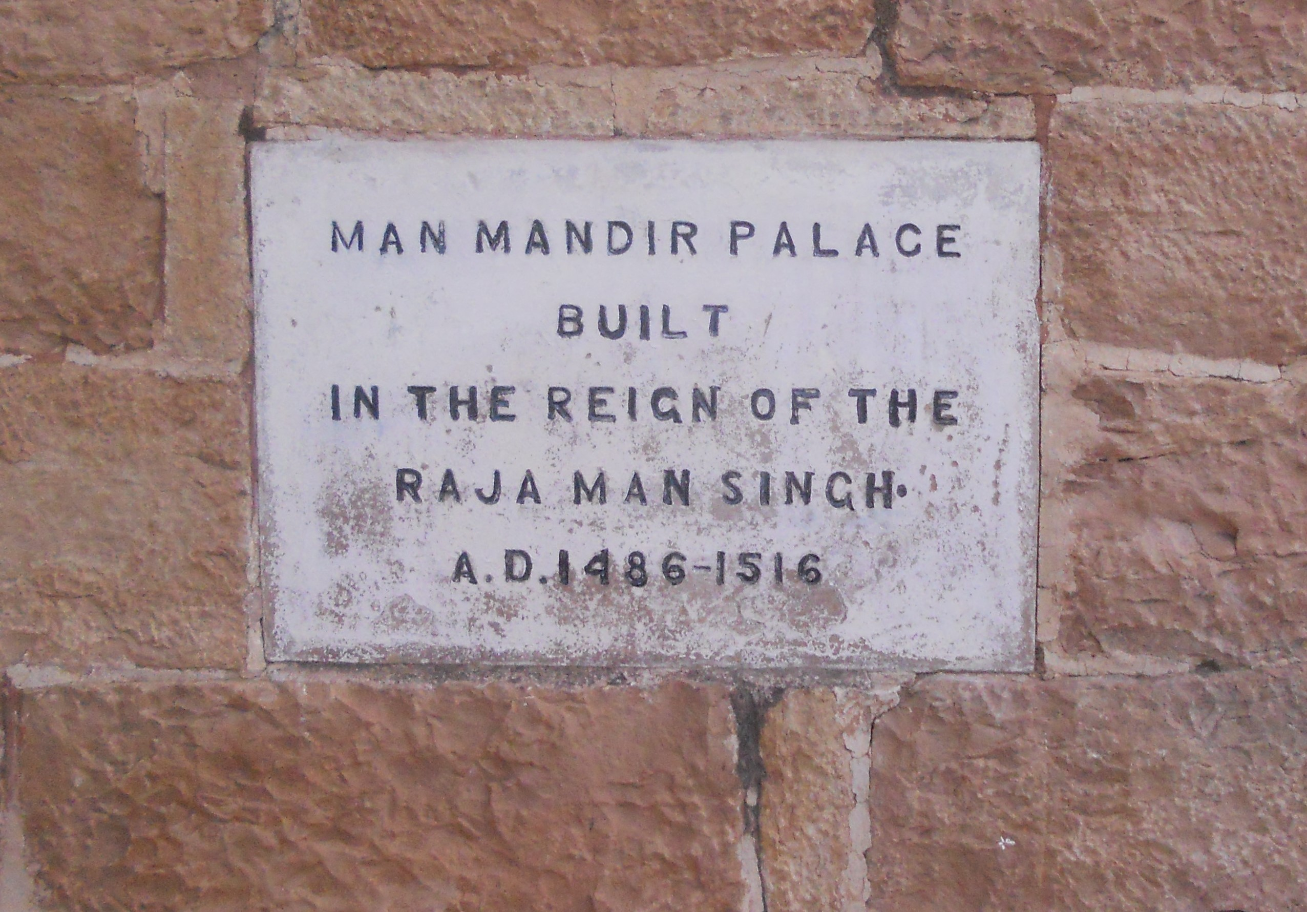 When Man Mandir palace was built